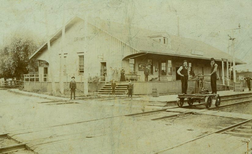 Grimsby's First Train Station. Built in 1855, the first Grimsby train station was replaced with a larger and more elaborate station around 1900. The original building was moved back from the tracks and used for packing and shipping fruit.